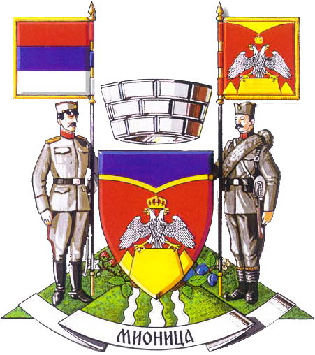 Coat of arms of Mionica (big)